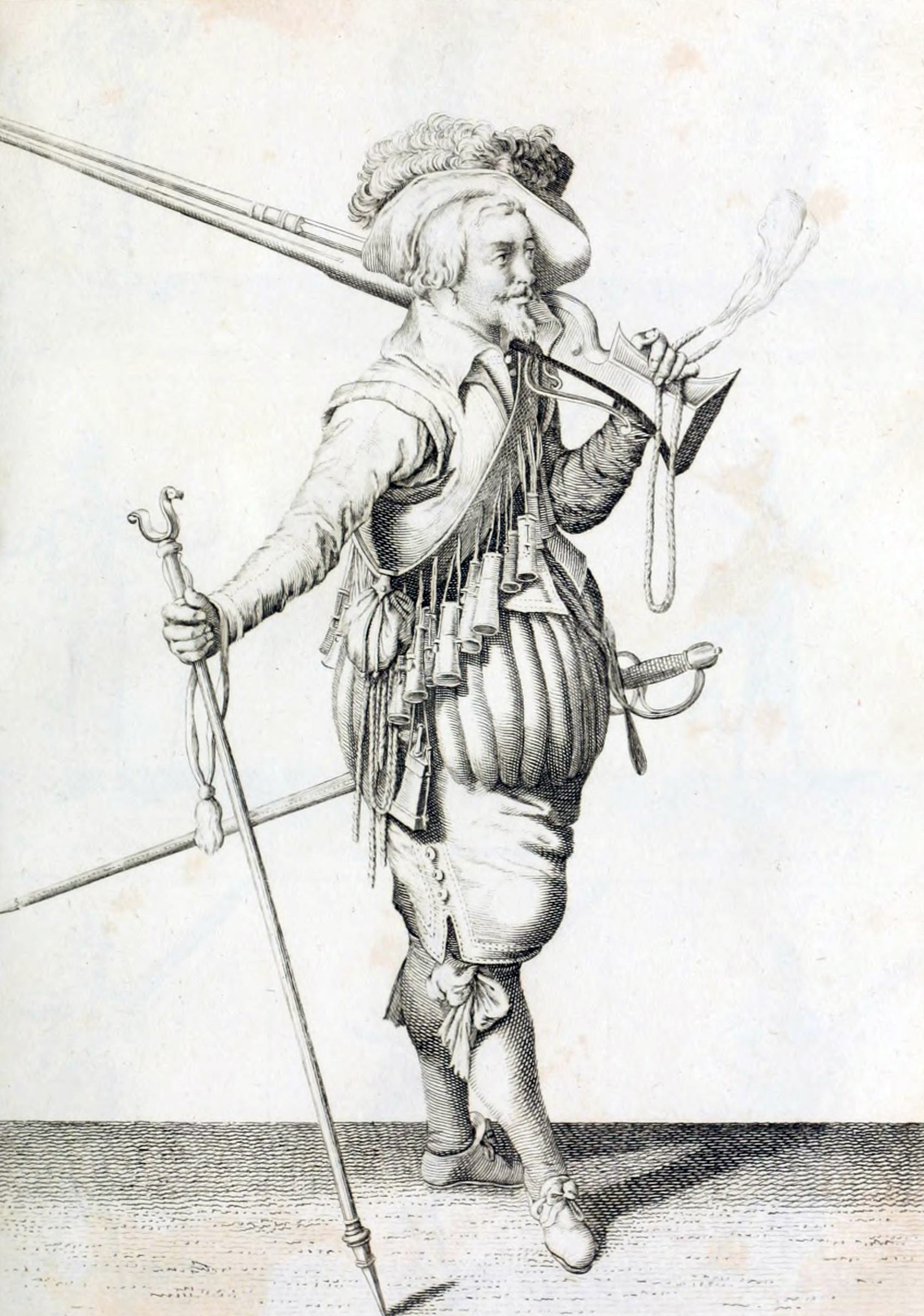 "A Musketeer with his Match-Lock, Bandileers and Rest", from Military Antiquities Respecting a History of The English Army from Conquest to the Present Time by Francis Grose, page 358.